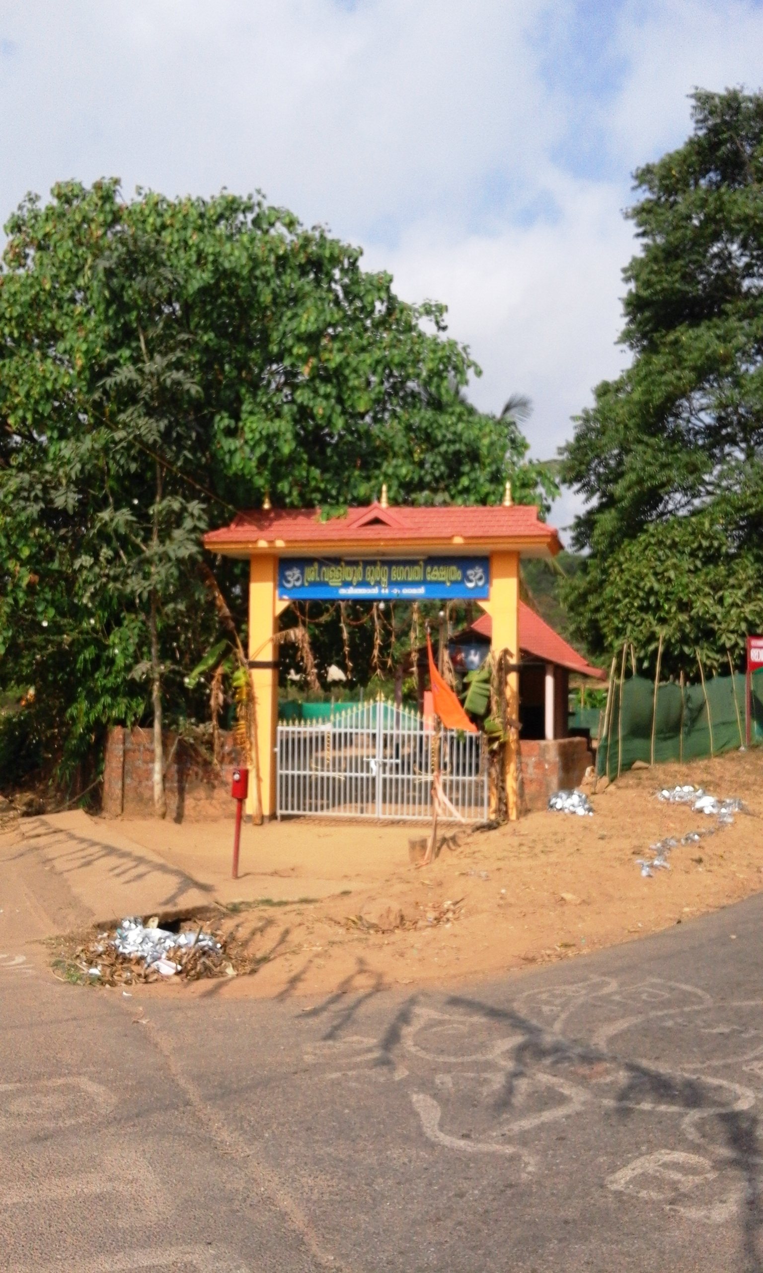 Wayanad district, Kerala province, India.